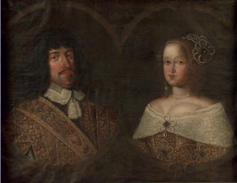 Portraits of King Frederik III and Queen Sophie Amalie